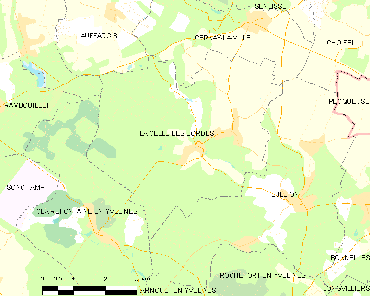 Map of French municipality La Celle-les-Bordes